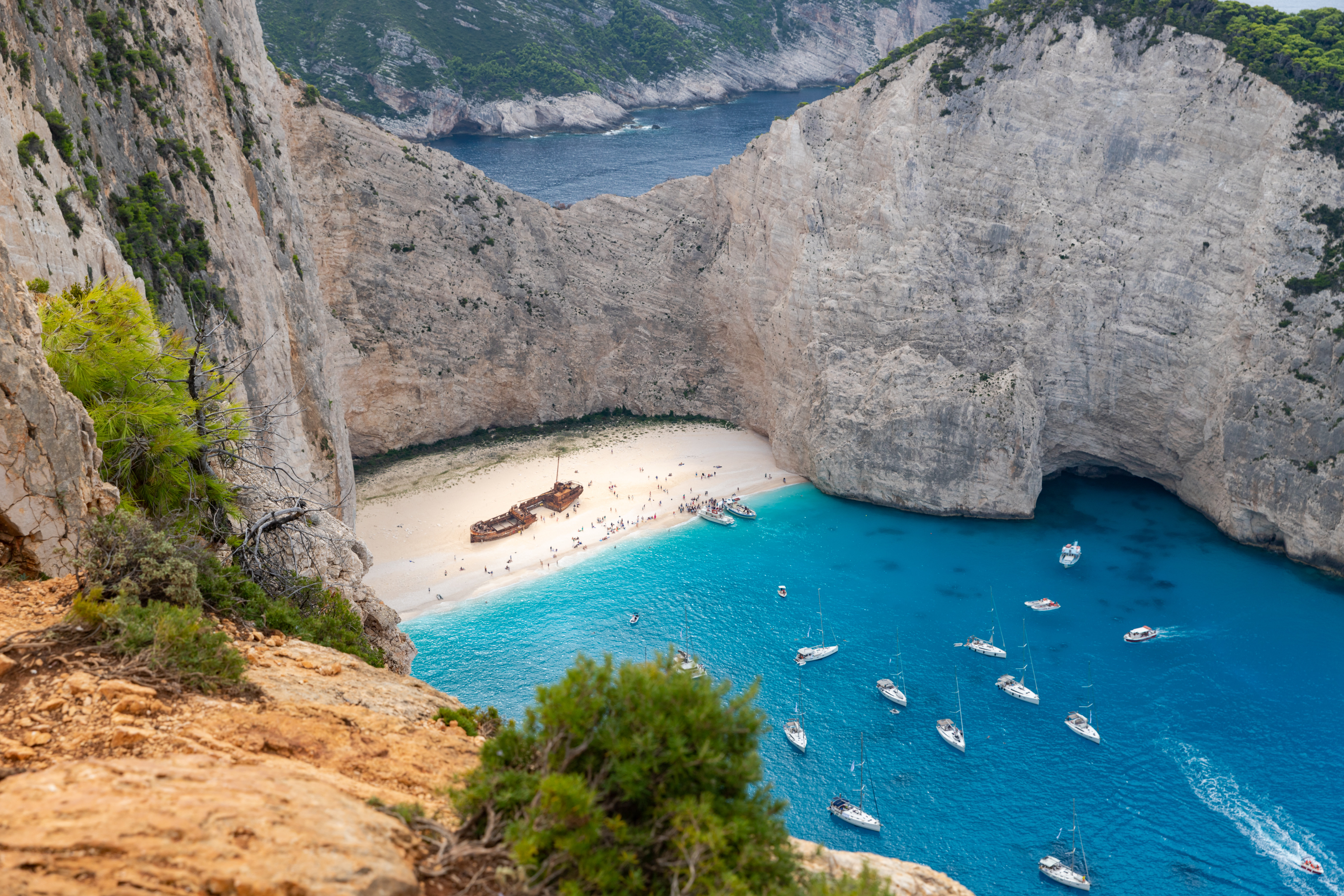 Navagio Beach and wreck of the MV Panagiotis